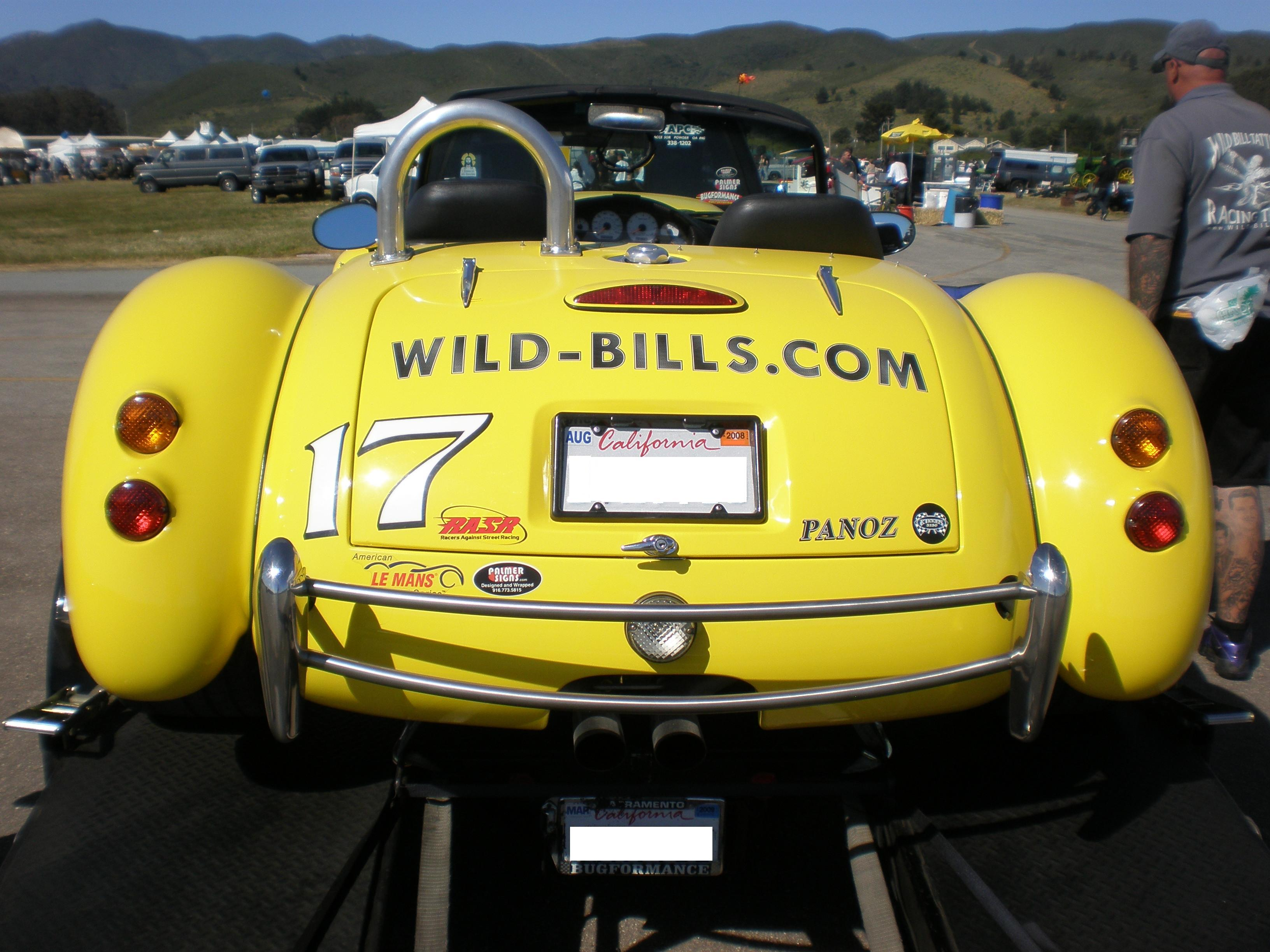 The rear of a 2002 Panoz AIV roadster at the Pacific Coast Dream Machines vehicle show at the Half Moon Bay Airport in Half Moon Bay, California.